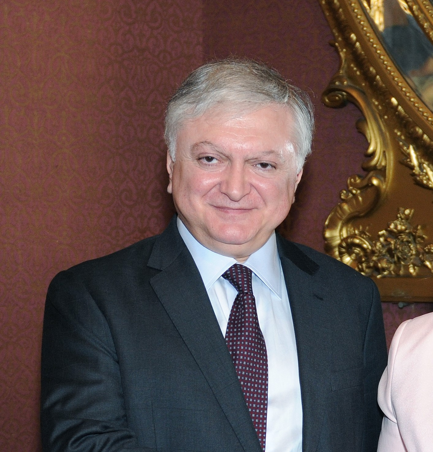 Edward Nalbandian (cropped pic from Peru)